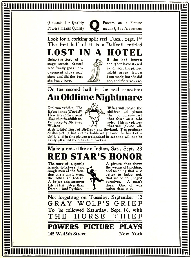 Advertisement for three 1911 films of Powers Moving Picture Company, including split-reel releases Lost in a Hotel and An Old-Time Nightmare published in The Moving Picture World, September 16, 1911, p. 809.